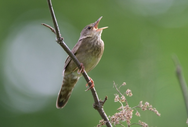 River Warbler, Locustella fluviatilis